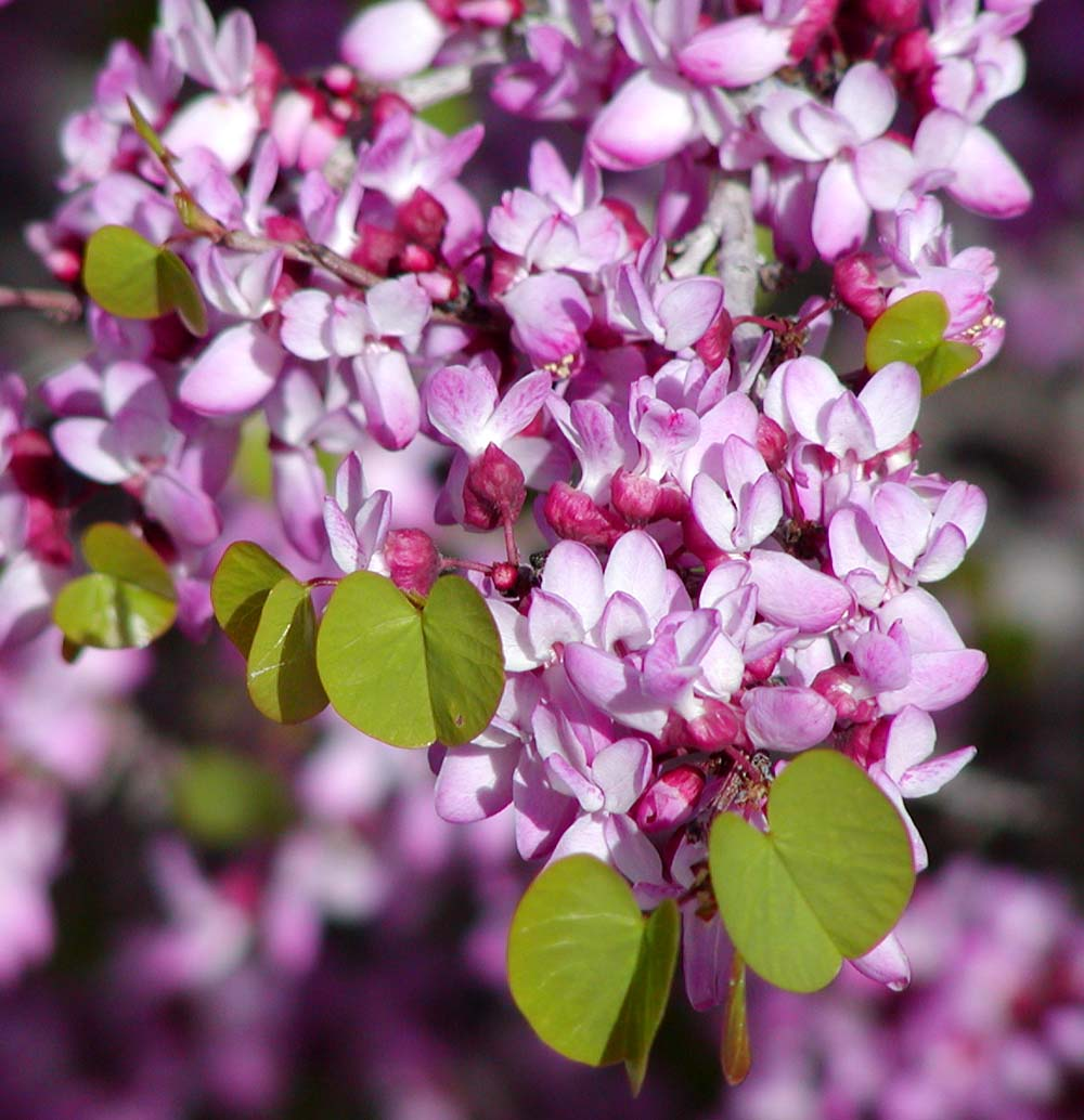 Photo of Cercis occidentalis (Western redbud) in Red Rock Canyon, Nevada